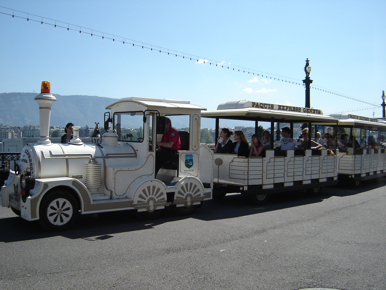 A Dotto Trains P90 in Geneva